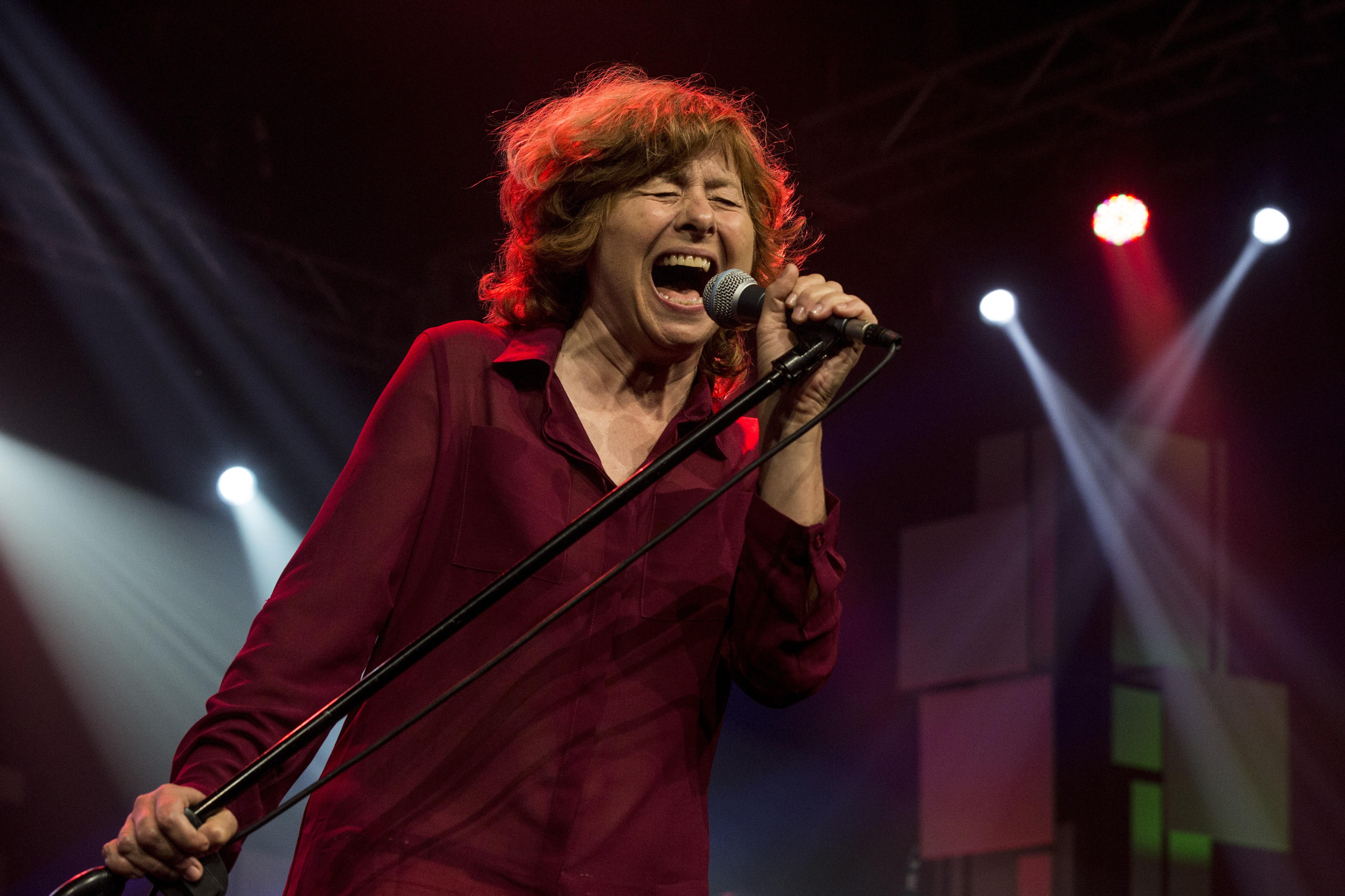 Buenos Aires, 27 de febrero de 2015 - El Ministerio de Cultura de la Nación, la TV Pública y el Plan Nacional Igualdad Cultural —en el que convergen las carteras de Cultura y Planificación Federal— presentan el programa especial “Somos Todas. Mujeres en libertad”, un concierto de música y poesía en homenaje a la mujer, en el marco del Día Internacional por los Derechos de la Mujer y la Paz Internacional.Entre las artistas convocadas, se incluyen Roxana Carabajal, Virginia Inocentti, Carolina Peleritti, Celeste Carballo, Amparo Sánchez, Ana Prada, Luciana Jury, Yusa, Sofía Viola, Miss Bolivia, Las Taradas, Georgina Hassan, Liliana Vitale, Laura Ros, La Yegros, Gimena Álvarez, Naara Andariega, Sara Hebe, Flopa y el dúo Vecina (Marianela Cuzzani y Laura Ledesma), que estarán acompañadas por una banda estable, dirigida por Luna Sujatovich, con Pampi Torre y Loli Molina en guitarras, Aldana Aguirre en bajo, Andrea Álvarez en batería, Vivi Pozzebón y Conce Soares en percusión, Gimena Álvarez en acordeón y teclados, e Irene Cadaio en violín.Además, Vera Spinetta, Estela de Carlotto, Graciela Borges, Paola Krum, Alejandra Flechner, Alejandra Darín, Emme y Dolores Fonzi recitarán poemas.Foto: Augusto Starita / Ministerio de Cultura de la Nación.